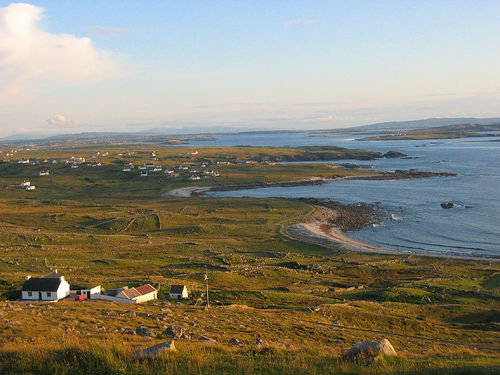 Cnocfola335